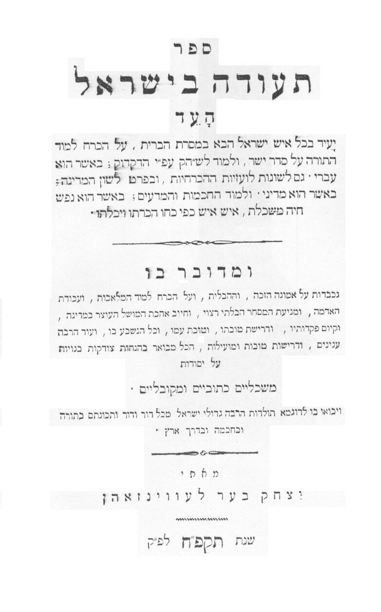 Front page of "Te'udah Be-Yisrael" (תעודה בישראל) by Hebrew Scholar Isaac Baer Levinsohn